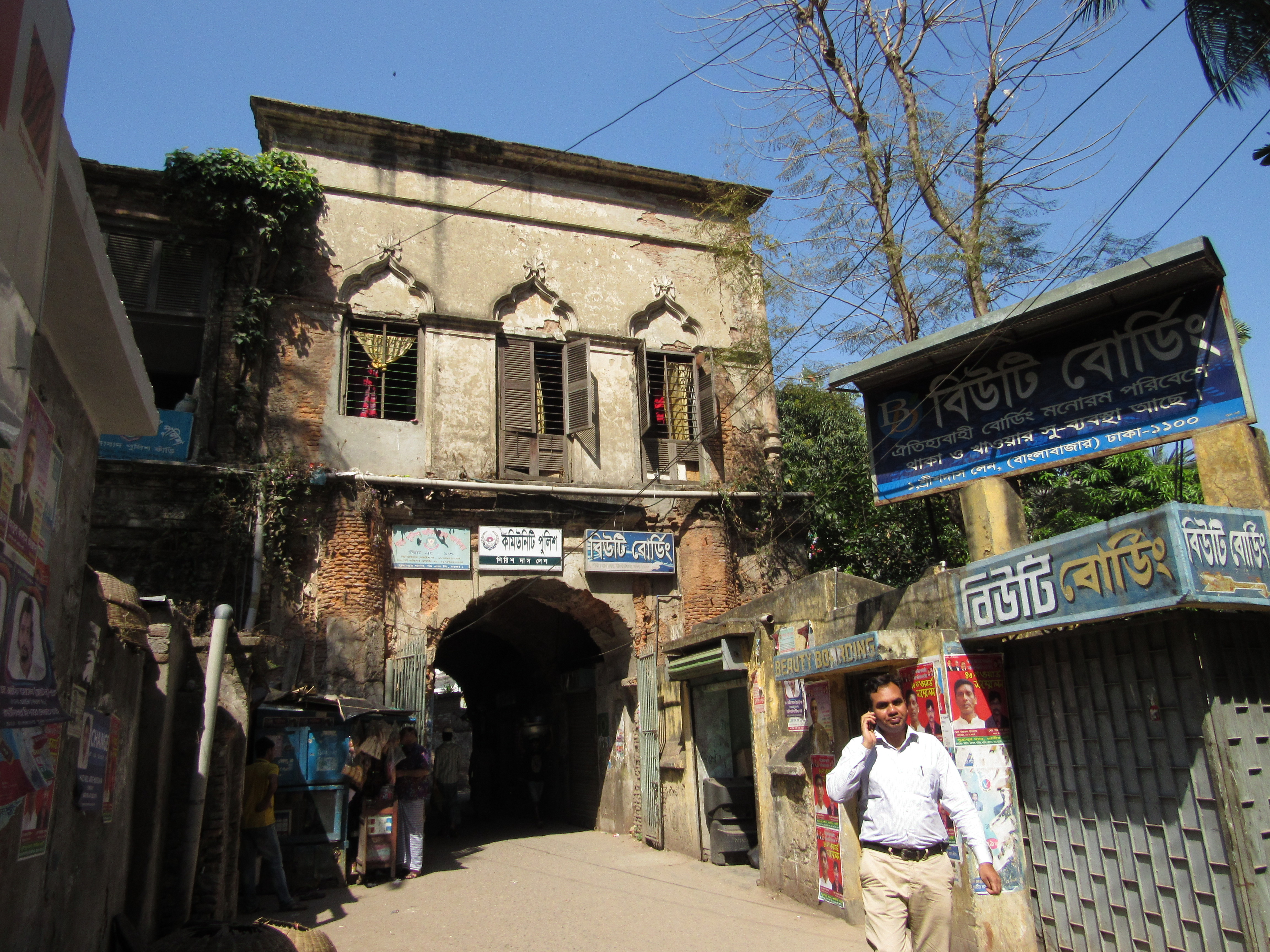 Entry of Beauty Boarding and a zamindar mansion.